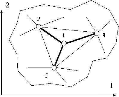 A triangle grid inside plane polygon